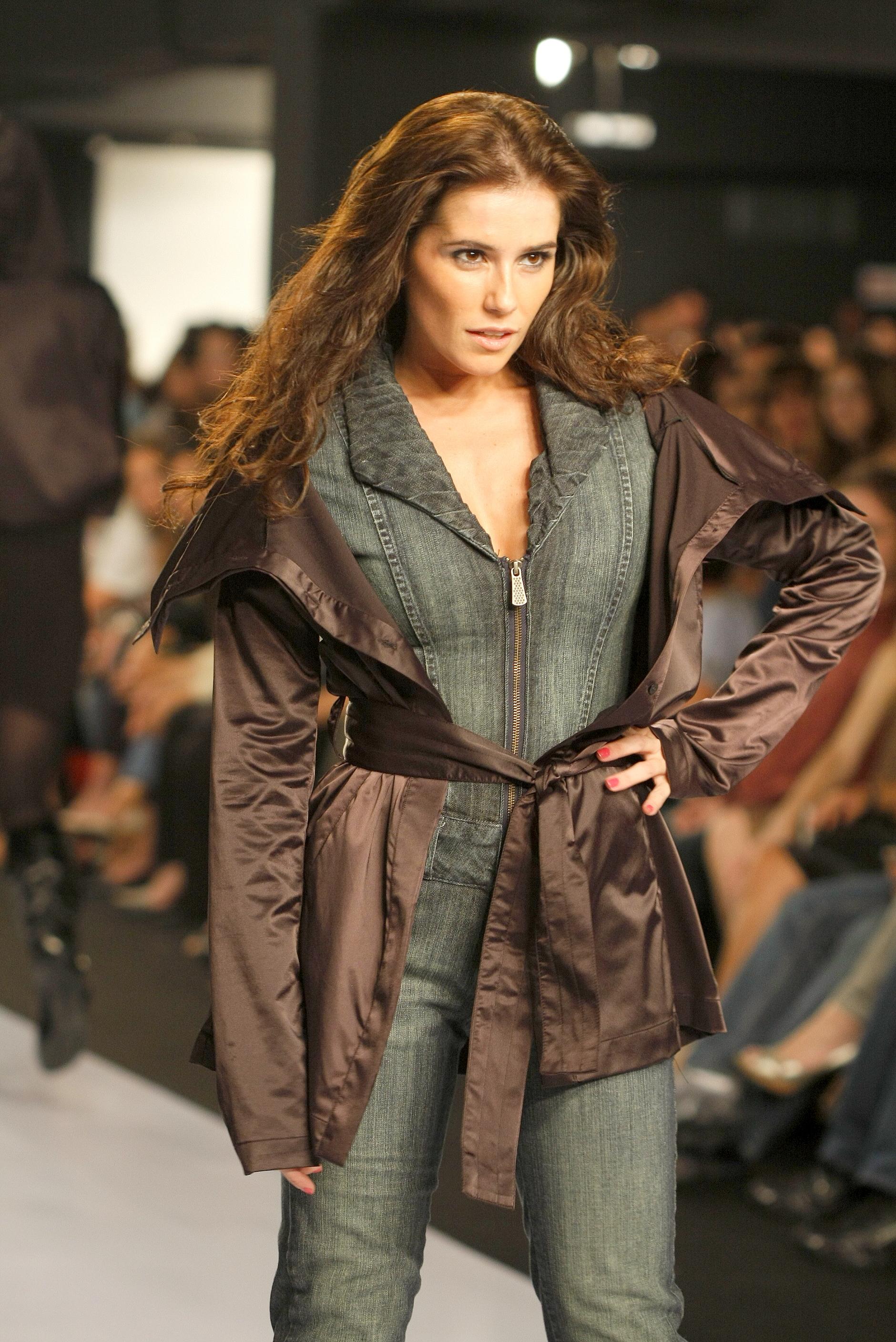 Deborah Secco in Crystal Fashion 2008.